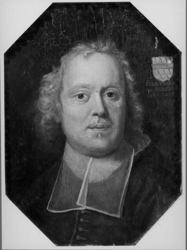 Image of Jean Louis of Elderen (1616-1694), Prince-Bishop of Liège from 1688 till 1694.